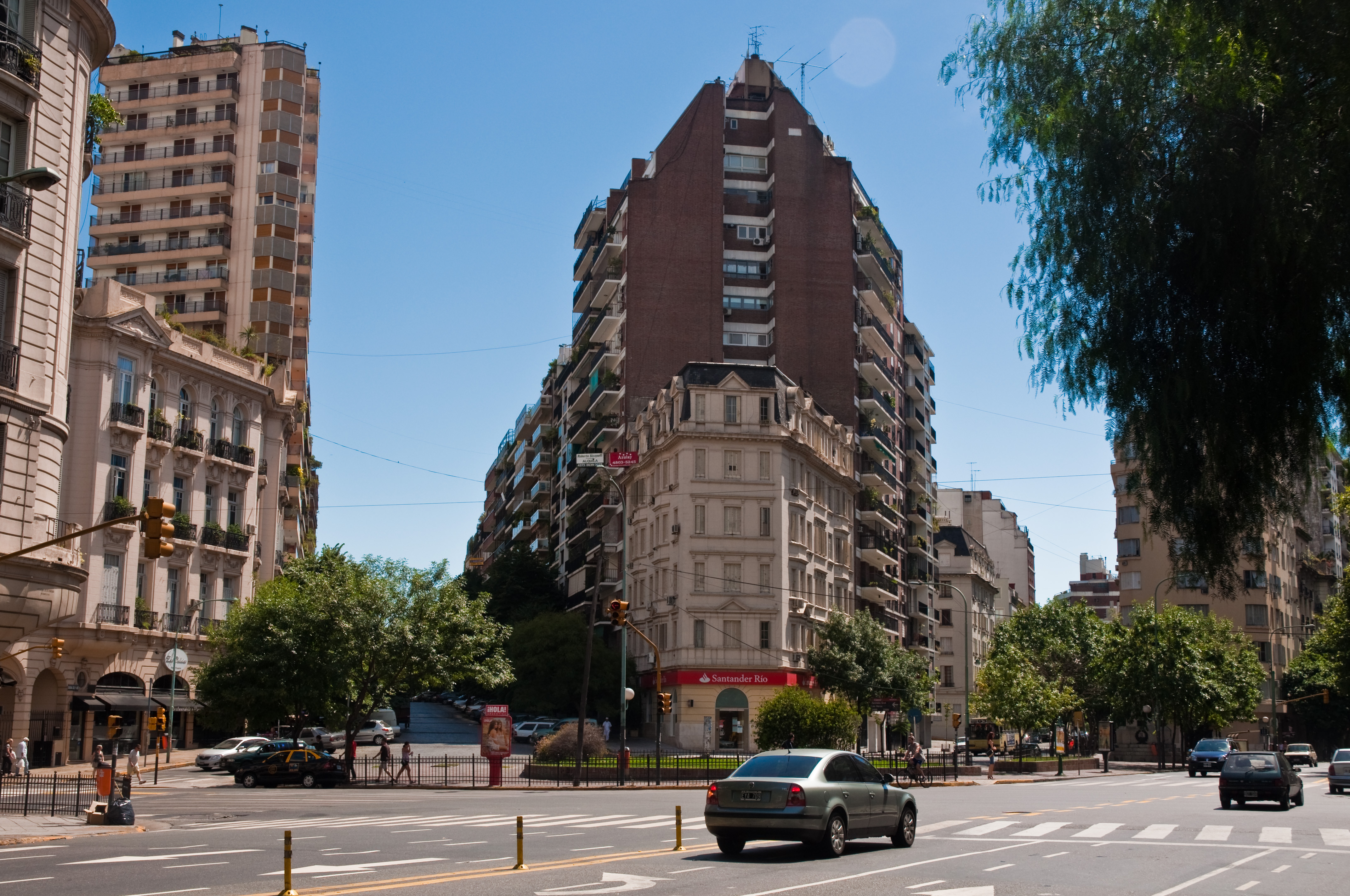 Pueyrredón Avenue, Buenos Aires, along the section within the Recoleta ward known as La Isla.